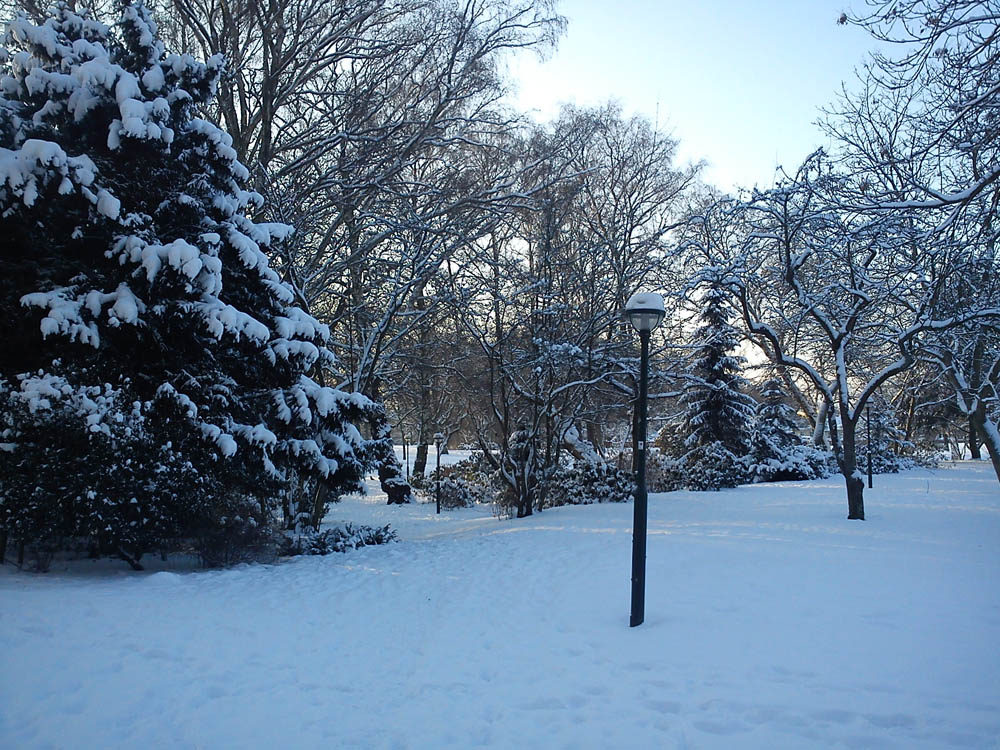 Landskrona Citadel Park on 20101221 at noon CET